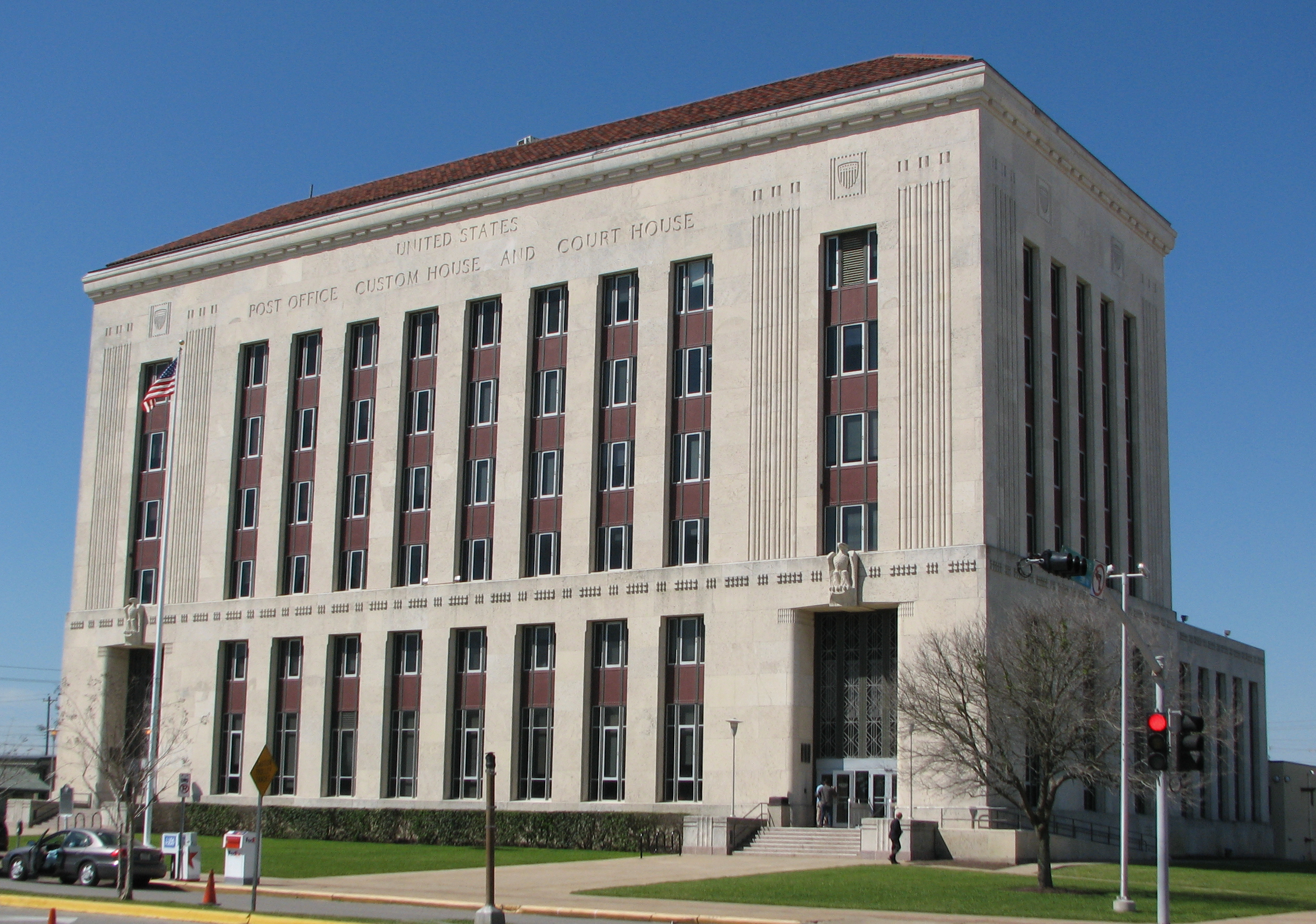 Photo of the United States Federal Building (officially named the United States Post Office, Customs House & Court House House Building) in downtown Galveston, Texas, USA, built in 1937.